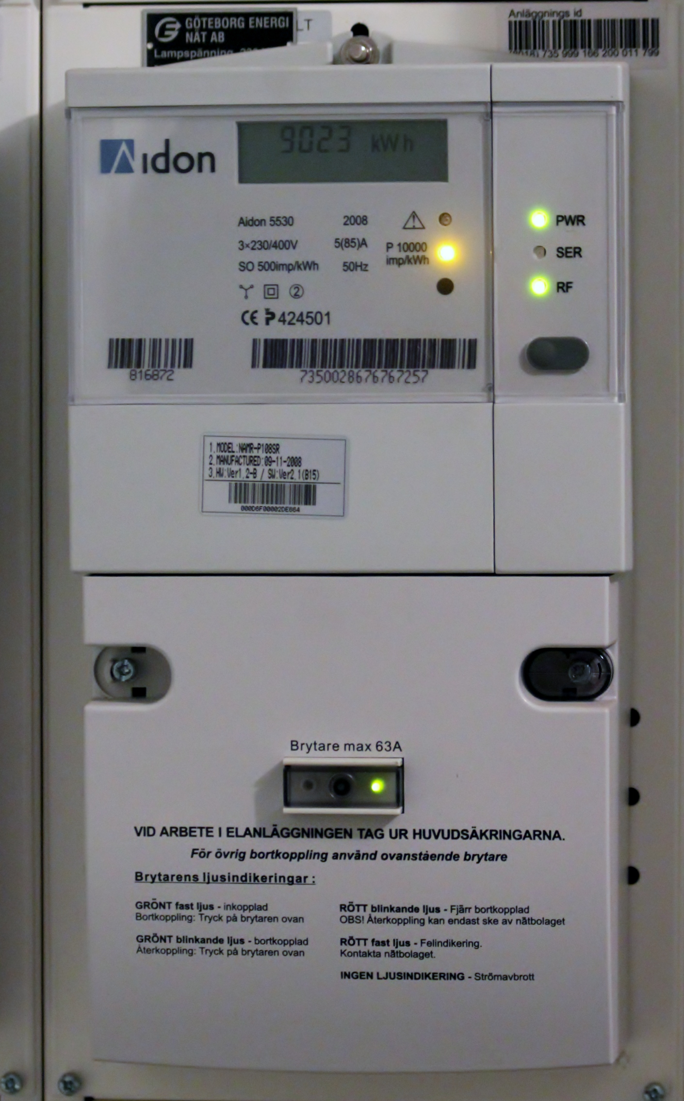 Electronic elecricity meter